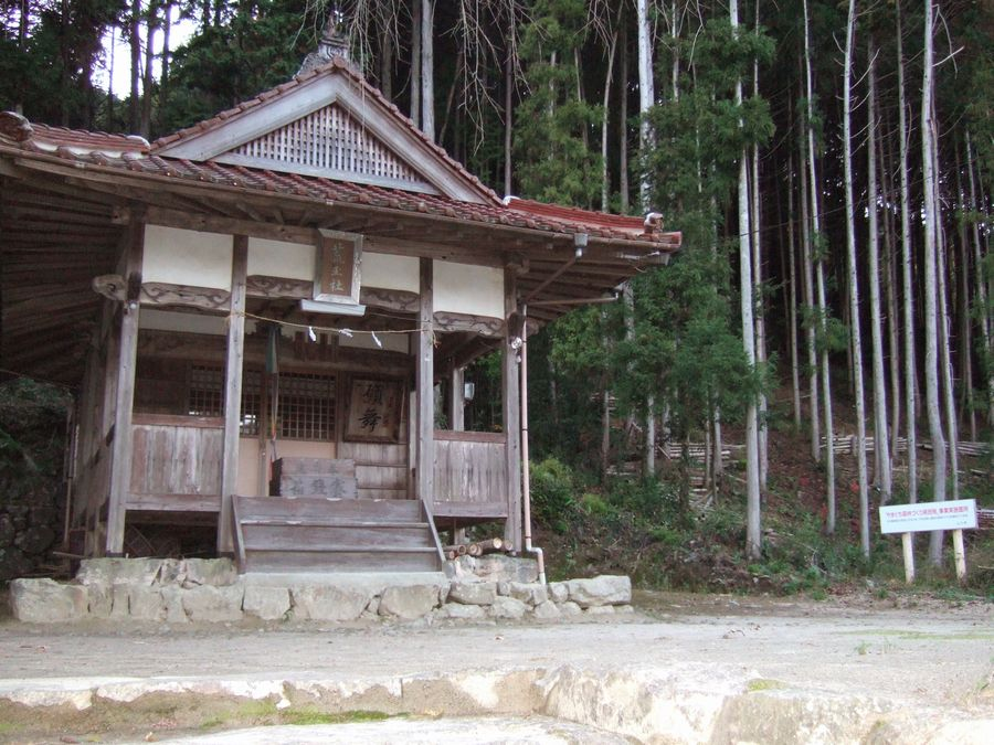 Main shrine of "Aratama-sya". (荒玉社の社殿)